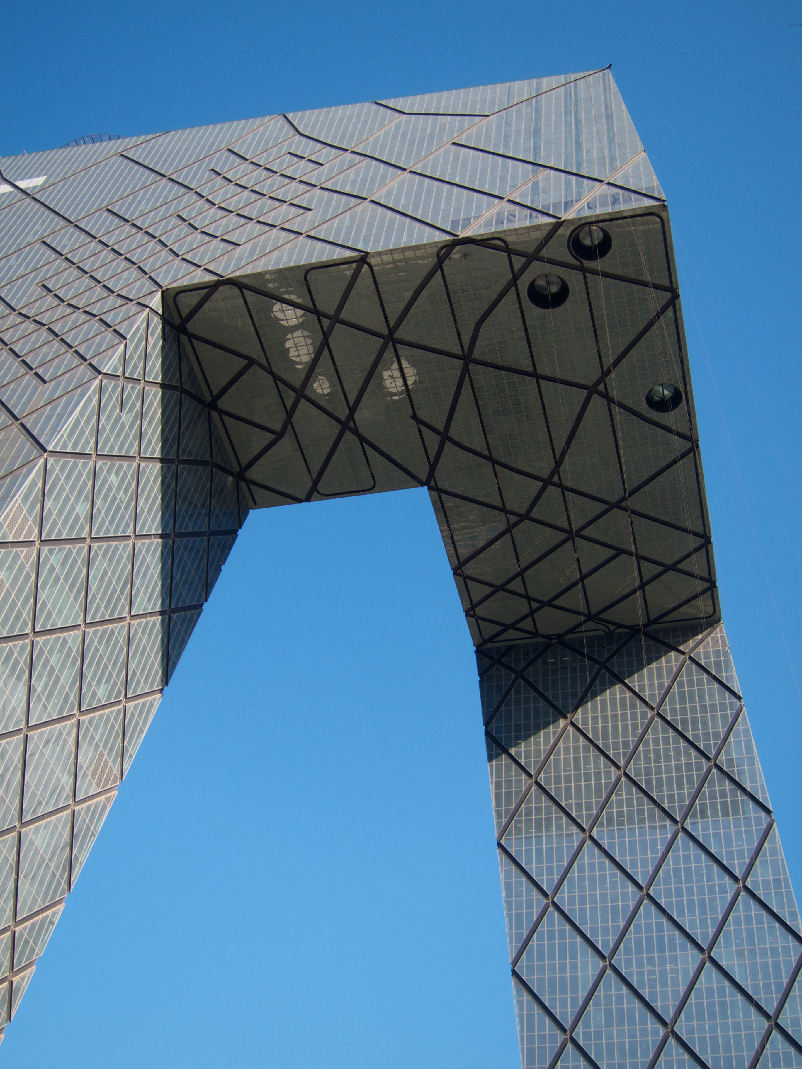 Rem Koolhaas and Ole Scheeren of OMA.